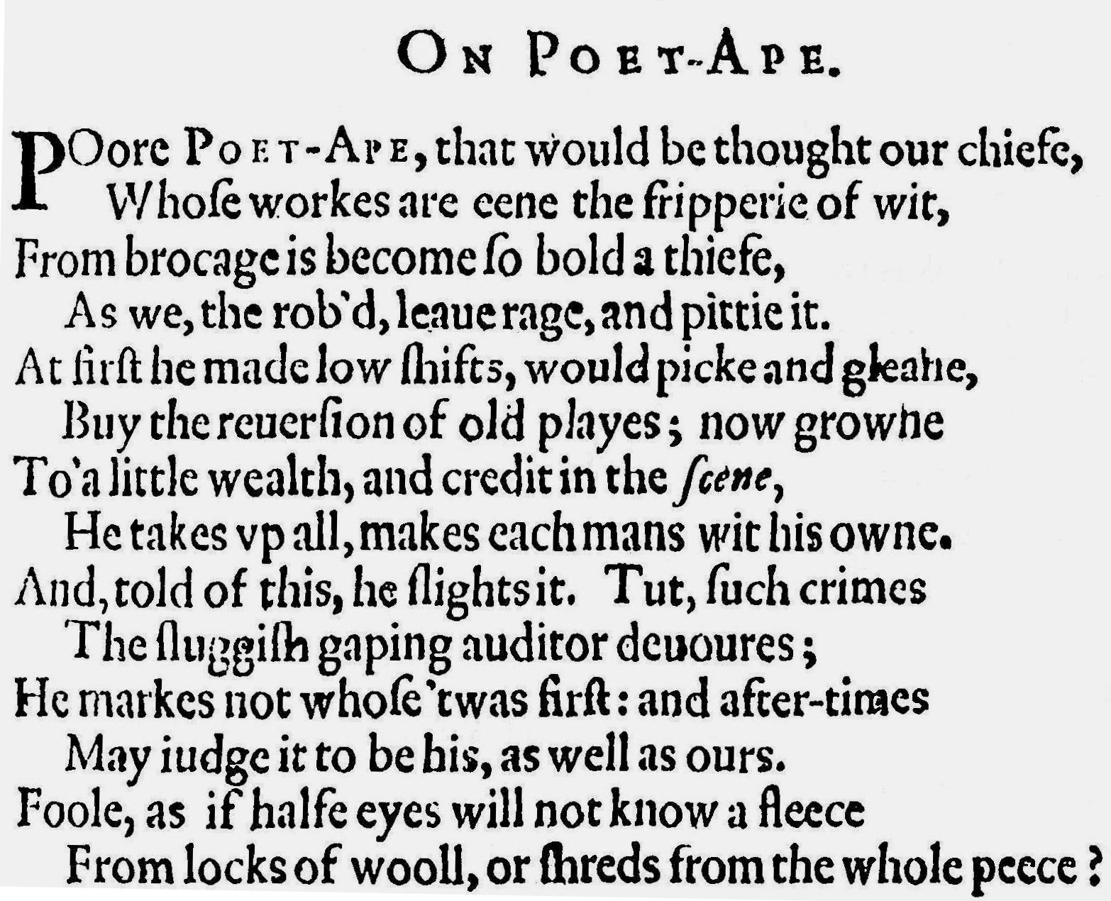 Poem from p. 783 of Jonson's collected works of 1616